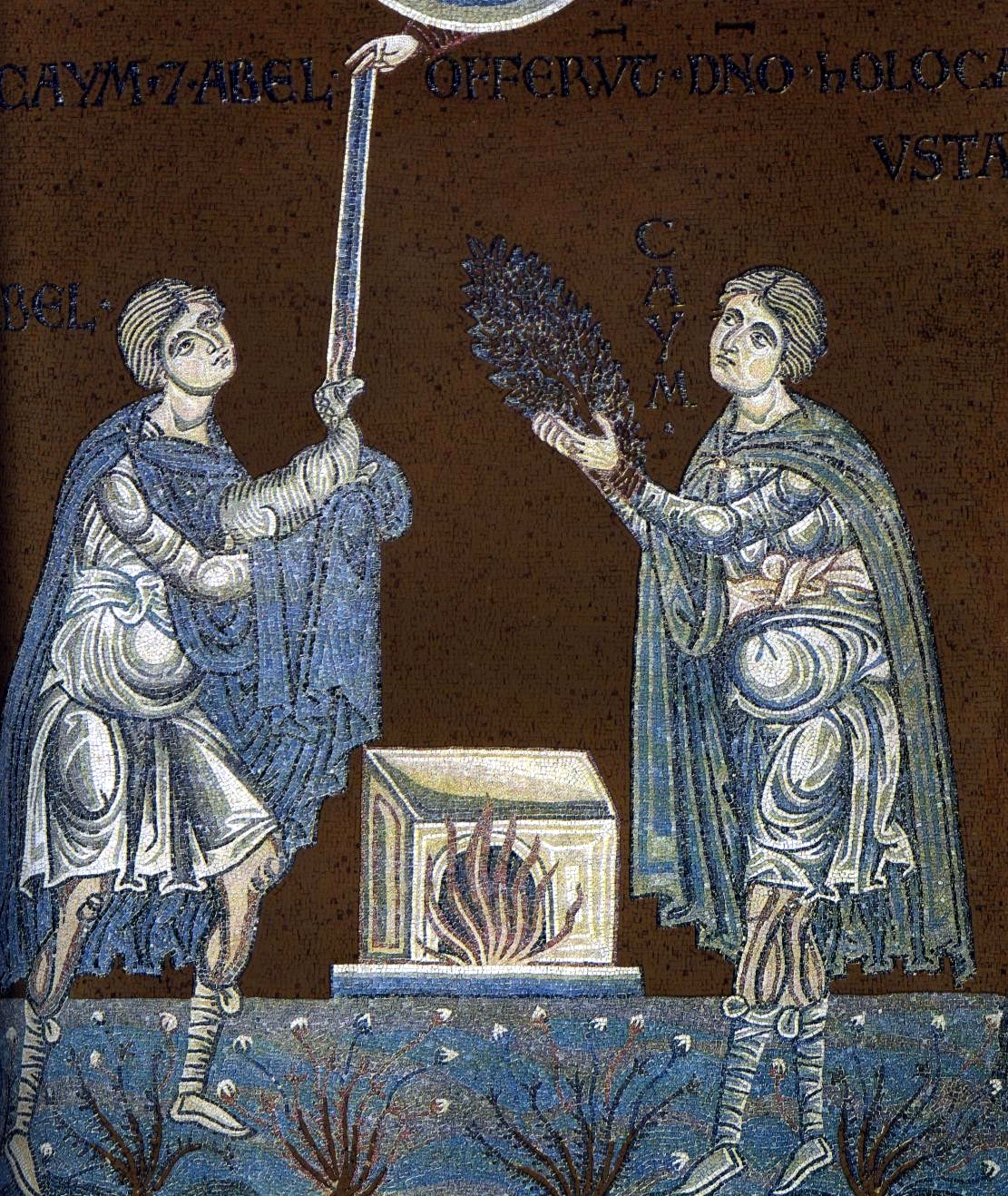 Abel and Cain offer their sacrifice to God. Byzantine mosaic in the Cathedral of Monreale.